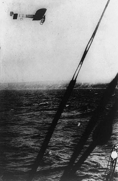 Louis Blériot (1872-1936) in his aeroplane over the English Channel